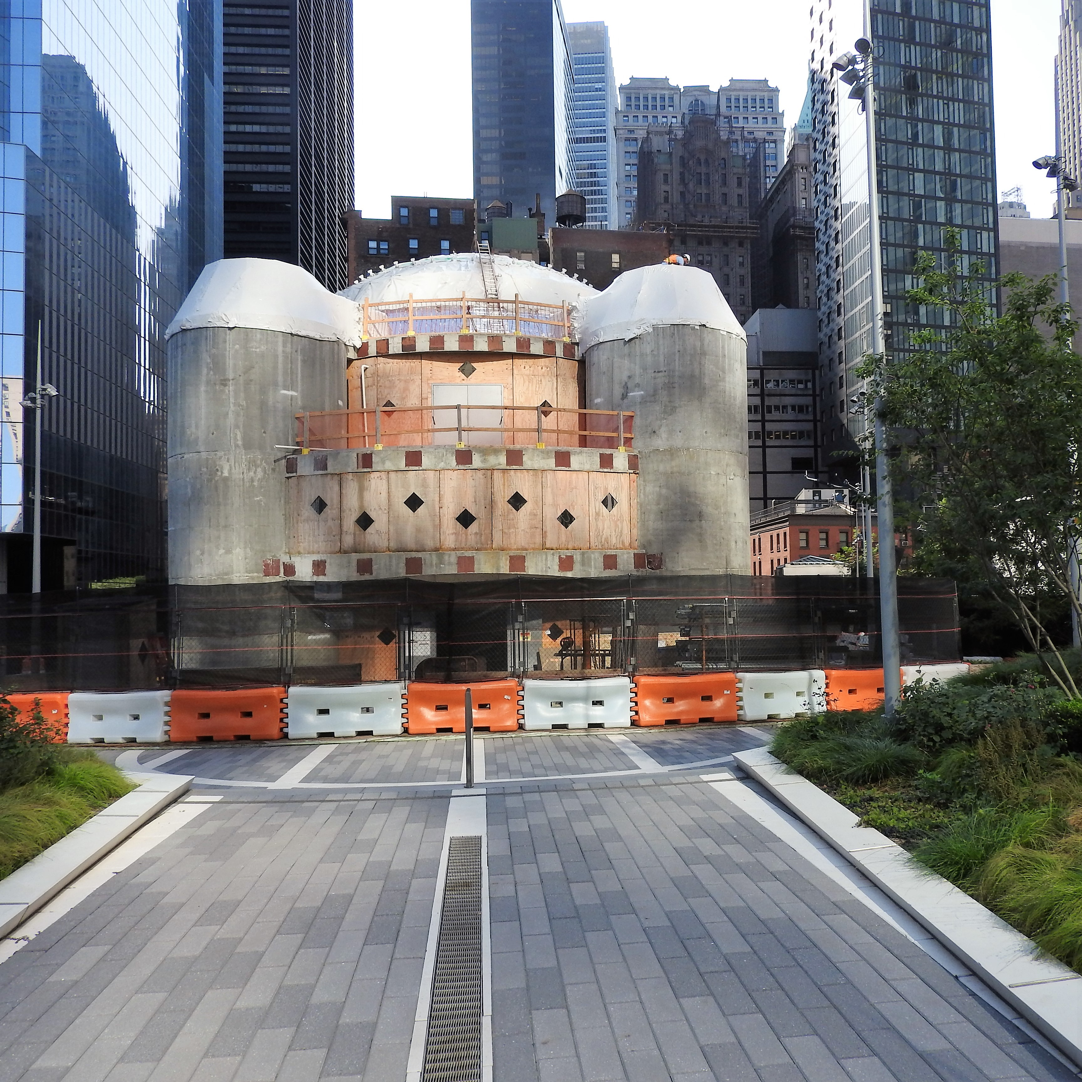 Looking east at partly built church